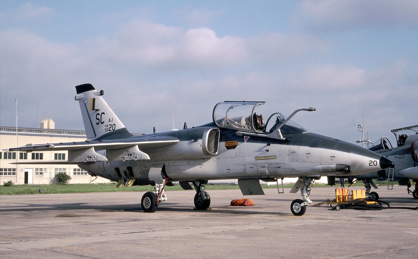 Brazil and Italy are the only countries using this small (but noisy) attack plane. Santa Cruz, July 1995.